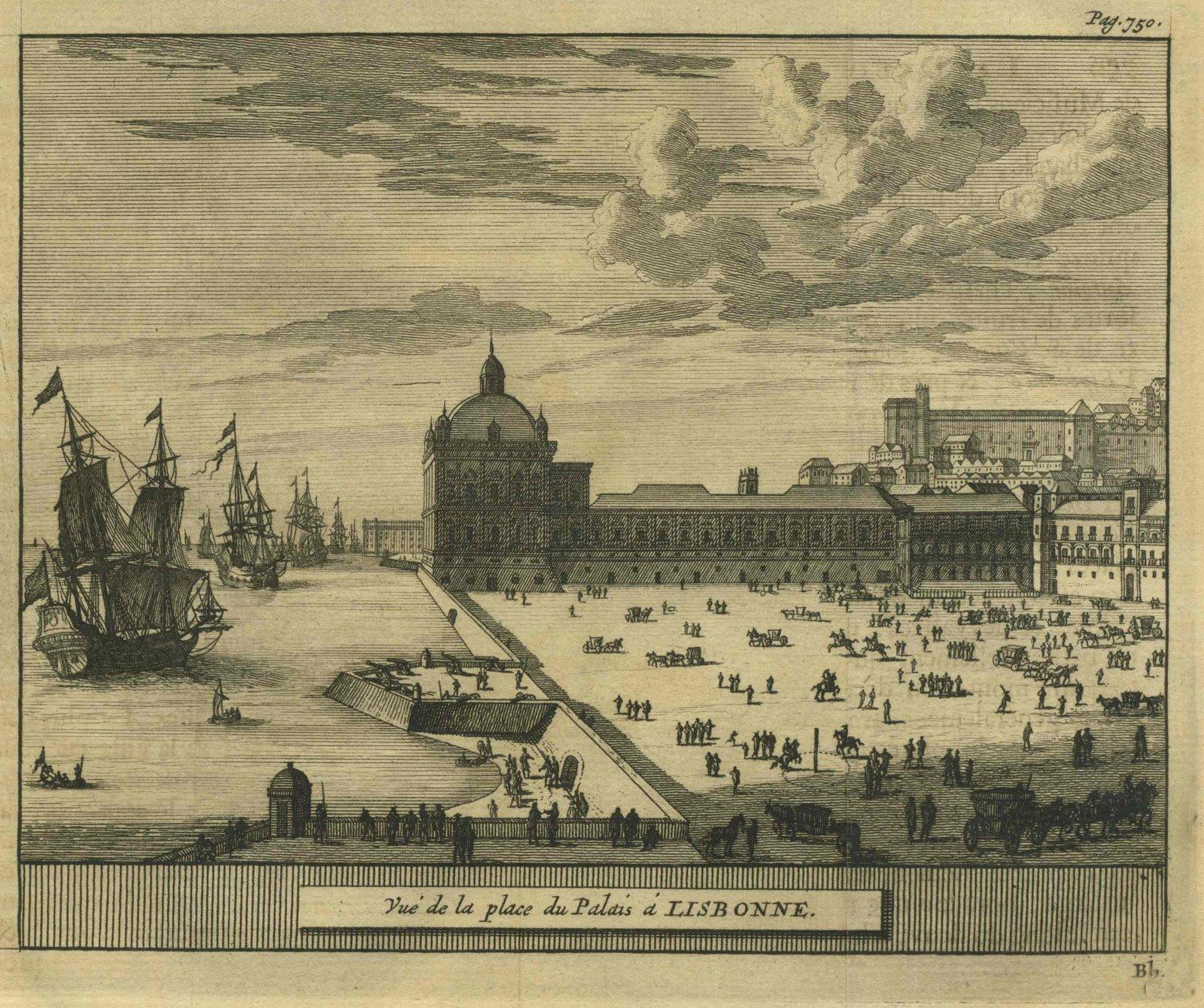 French drawing of the Palace of Ribeira in the 18th century by Guillaume Debrie